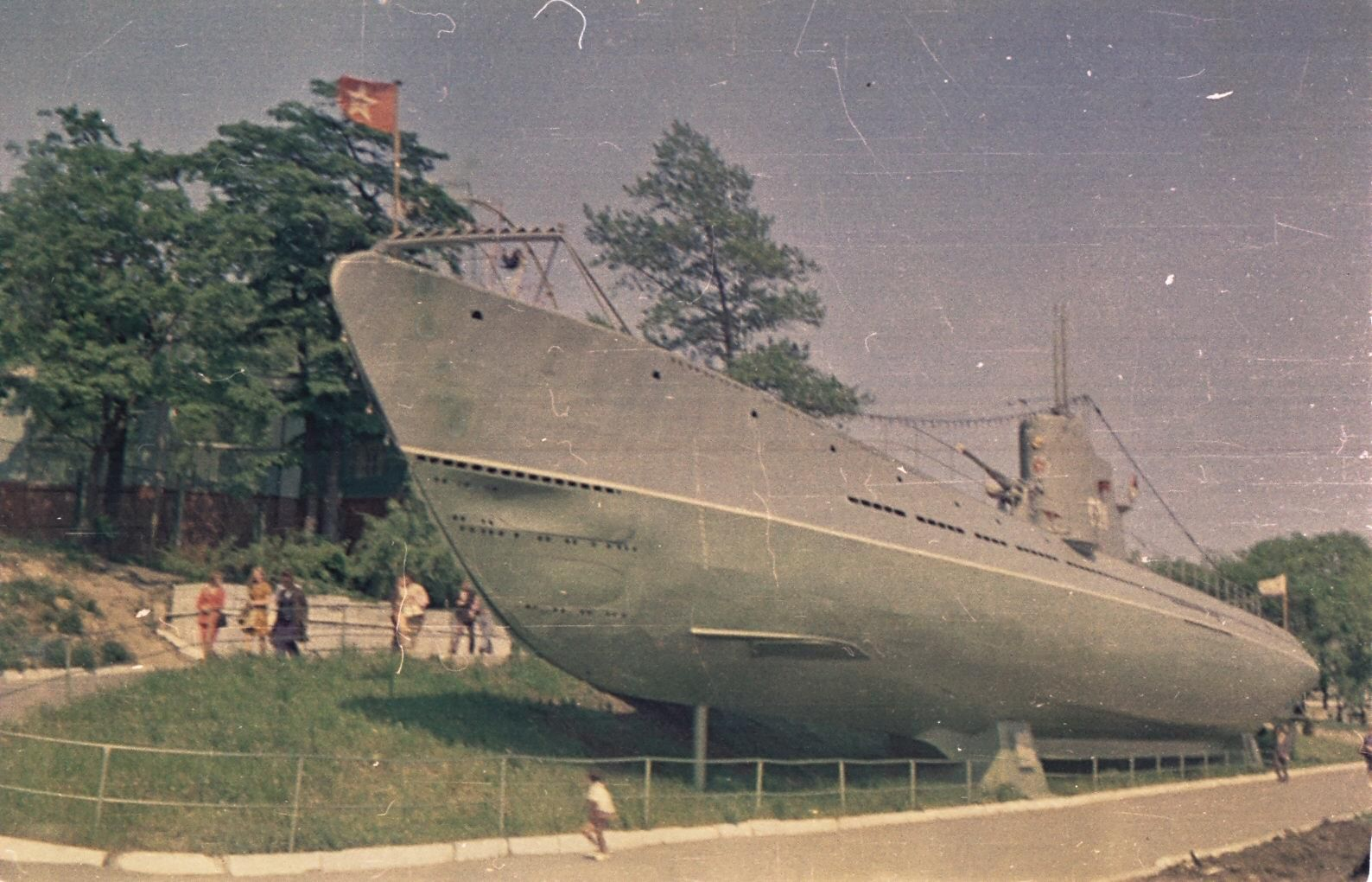 С-56 Владивосток 1978